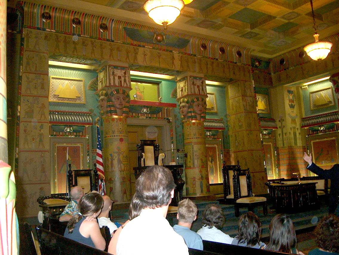 Grand Lodge of Pennsylvania in Philadelphia